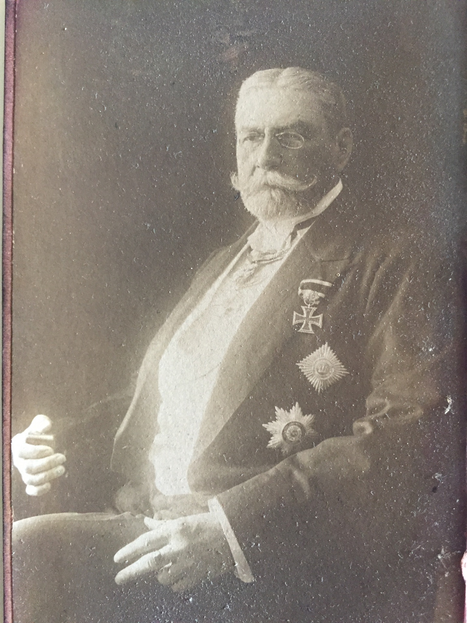 Portrait of Hermann Wilhelm Stockmann (* 23. Februar 1848 in Steinrade; † 28. Dezember 1924 in Kiel)